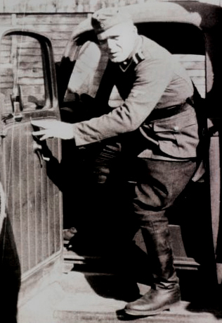 Fritz Schmidt (1906–1982), Holocaust perpetrator who began his World War II career as a guard and driver at the Sonnenstein and Bernburg Euthanasia Centres with the rank of SS-Unterscharführer. Schmidt was transferred to Treblinka extermination camp along with other gassing specialists in 1942. While in Treblinka, he was in charge of the engine room feeding exhaust to the gas chambers. After the closing of the camp in 1943 he was moved to Trieste where the Risiera di San Sabba killing centre was being set up. In December 1949 he was put on trial and sentenced to nine years in prison (possibly amnestied). He lived in West Germany until his death in 1982.